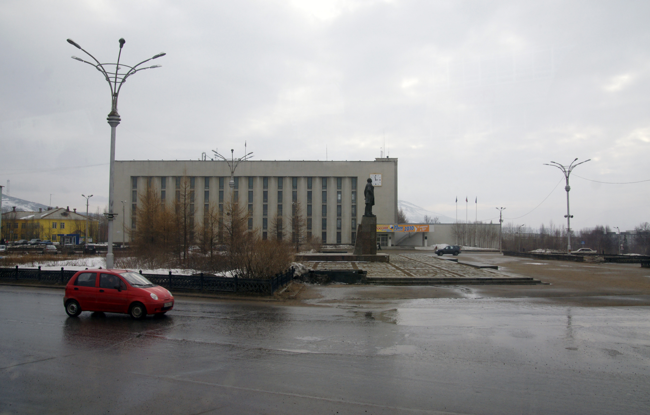 Revolution Square, the "new" (1960s or 70s) main square of Monchegorsk. Looking south, to the city government building.